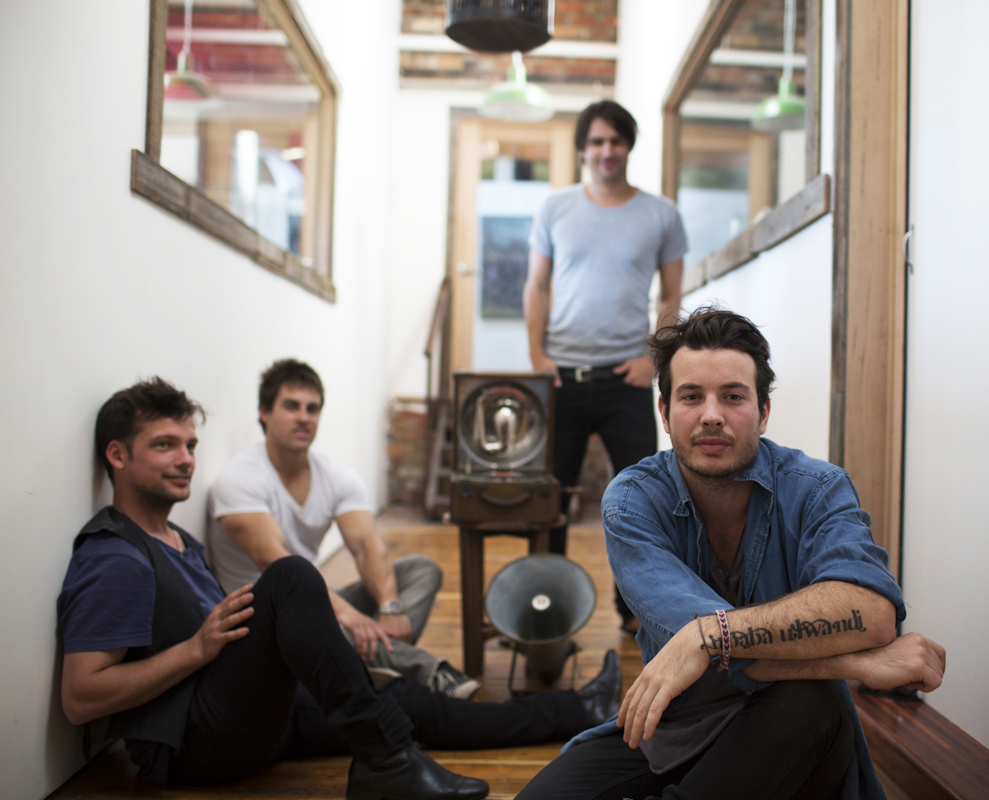 Photo was taken in Melbourne, Australia.